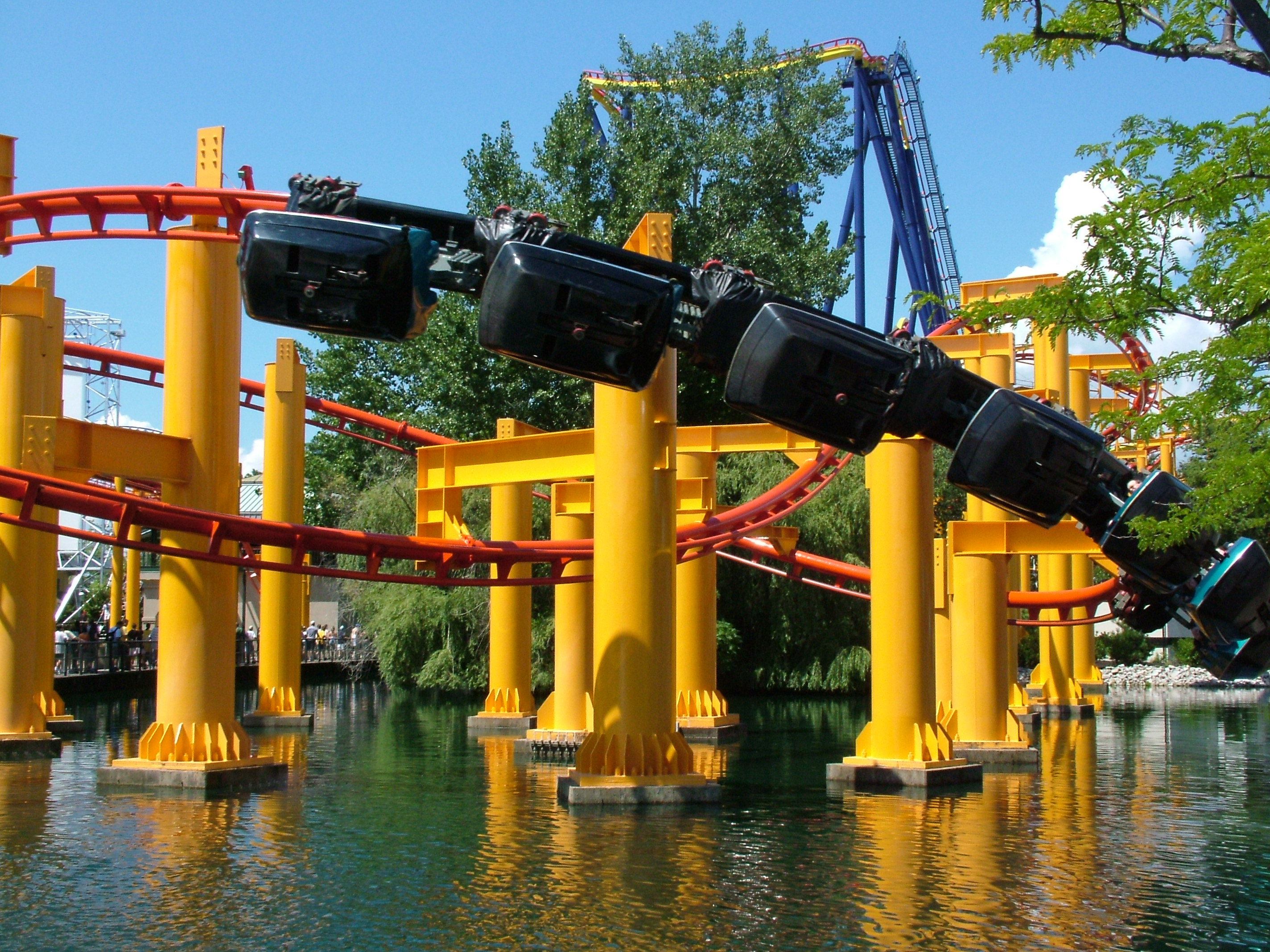 Subject: Iron Dragon roller coaster at Cedar Point in Sandusky, Ohio Author: Nick Nolte Taken: August 8, 2004